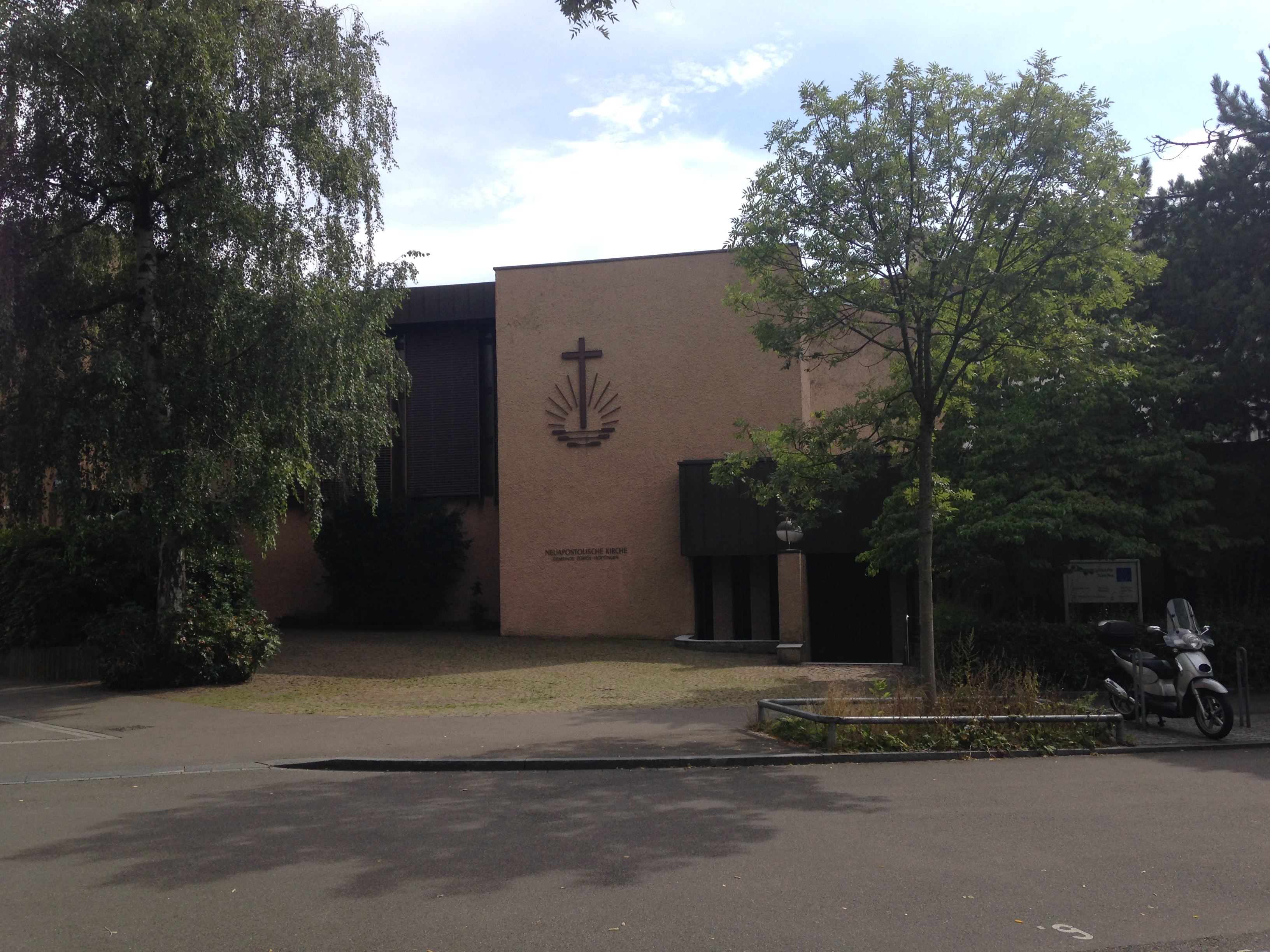 The New Apostolic Church in Zürch, Hottingen district (Gemeindestrasse), in August 2016. Camera angle from Hottingerplatz